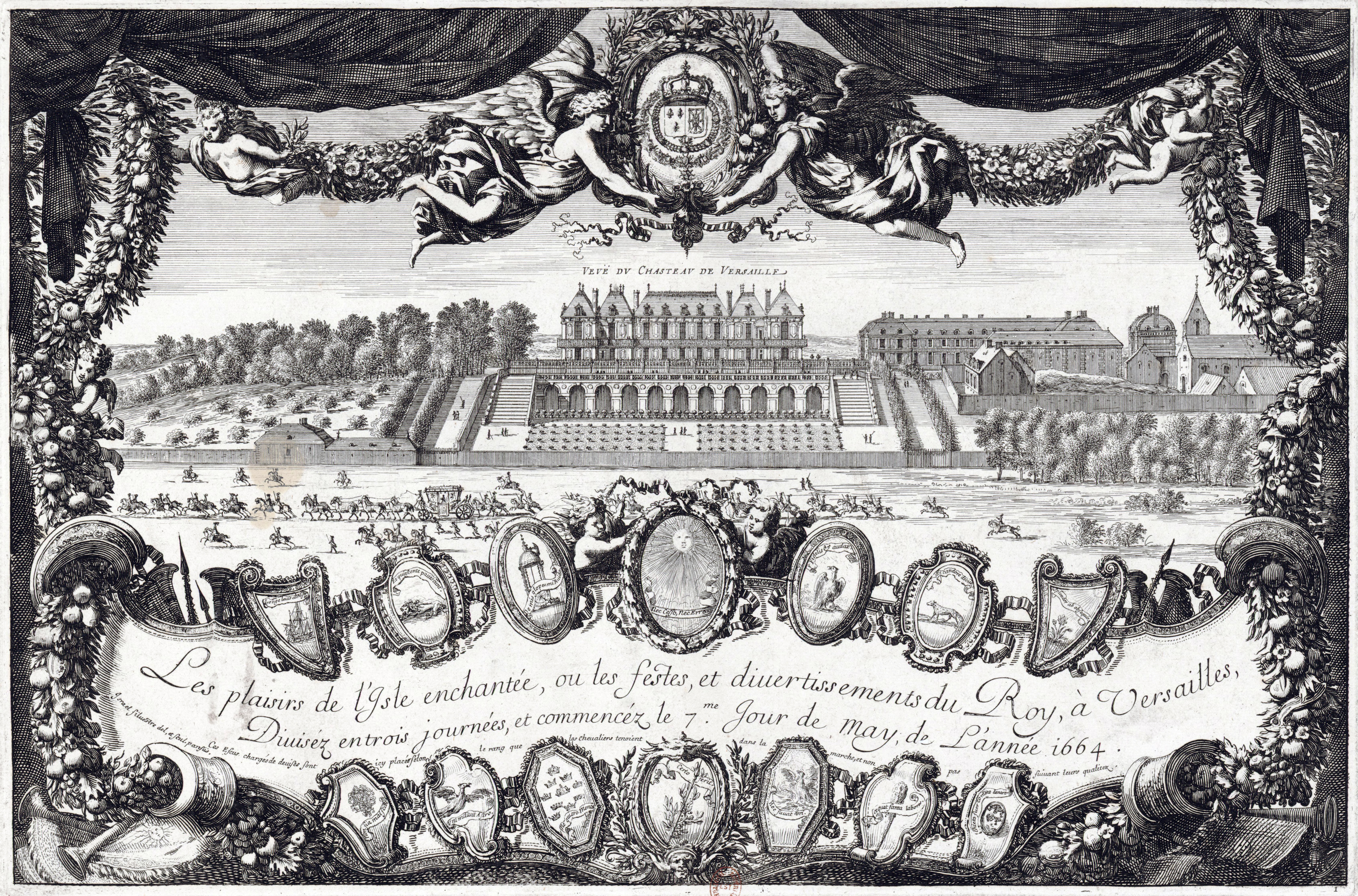 Frontispiece to a booklet commemorating the 7-day festival of Les Plaisirs de l'Ile Enchantée, held at the Château de Versailles in May 1664, with a view of the south façade showing the new orangerie in front of it and the new stables to the right, both designed by the architect Louis Le Vau and built in 1663